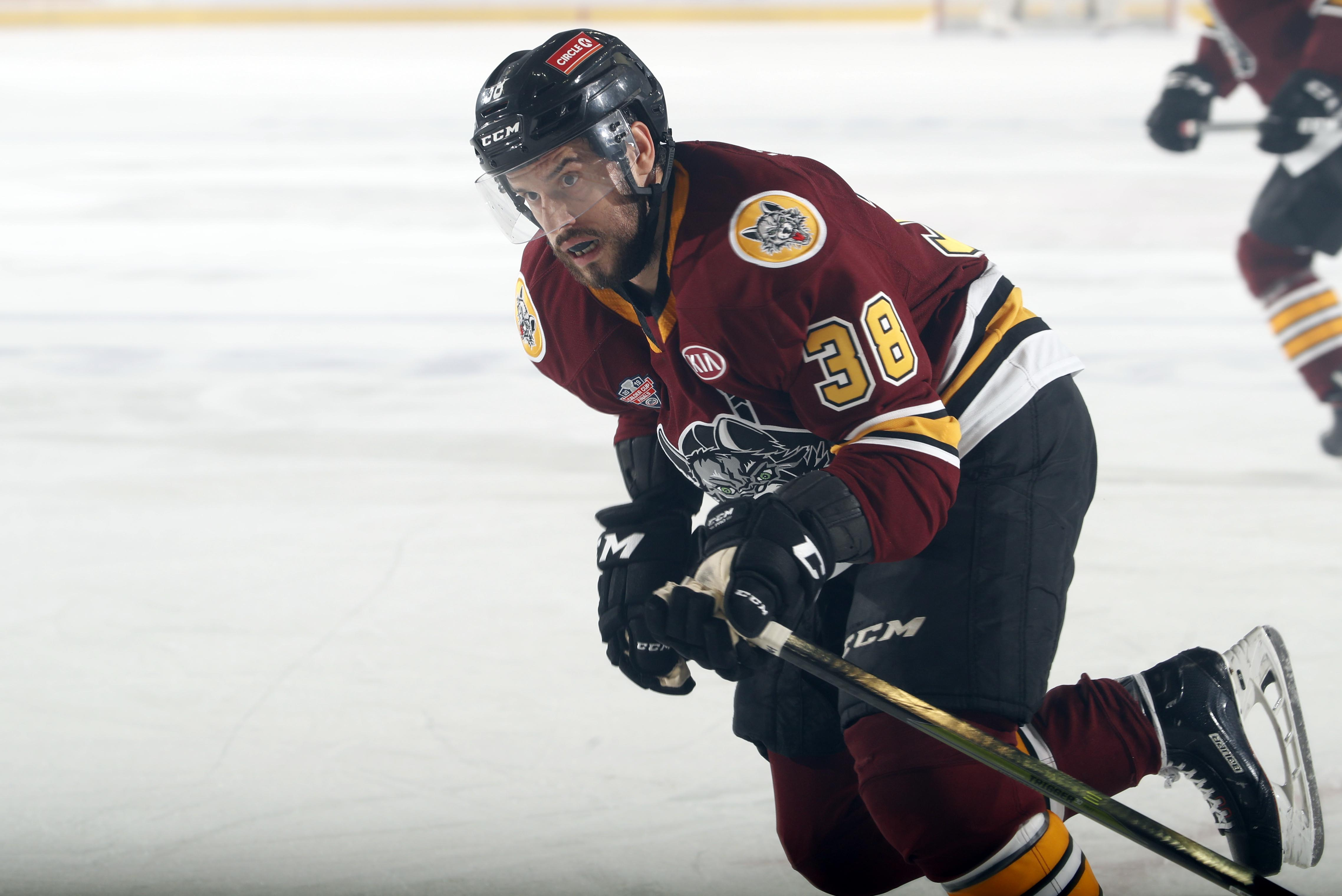 Photo: Ross Dettman